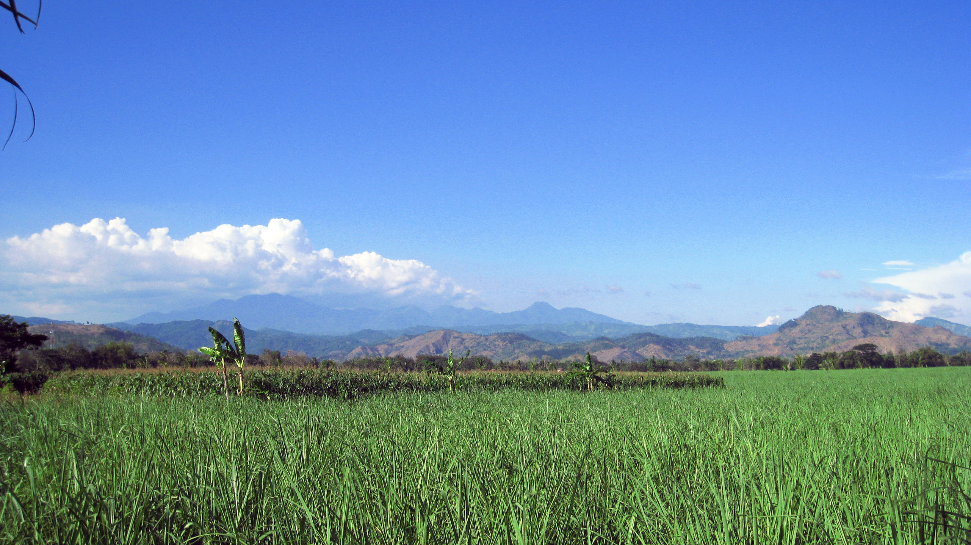 A view of a paddy field in Trenggalek, Indonesia, with Mt. Wilis (2,563 m) in the background.